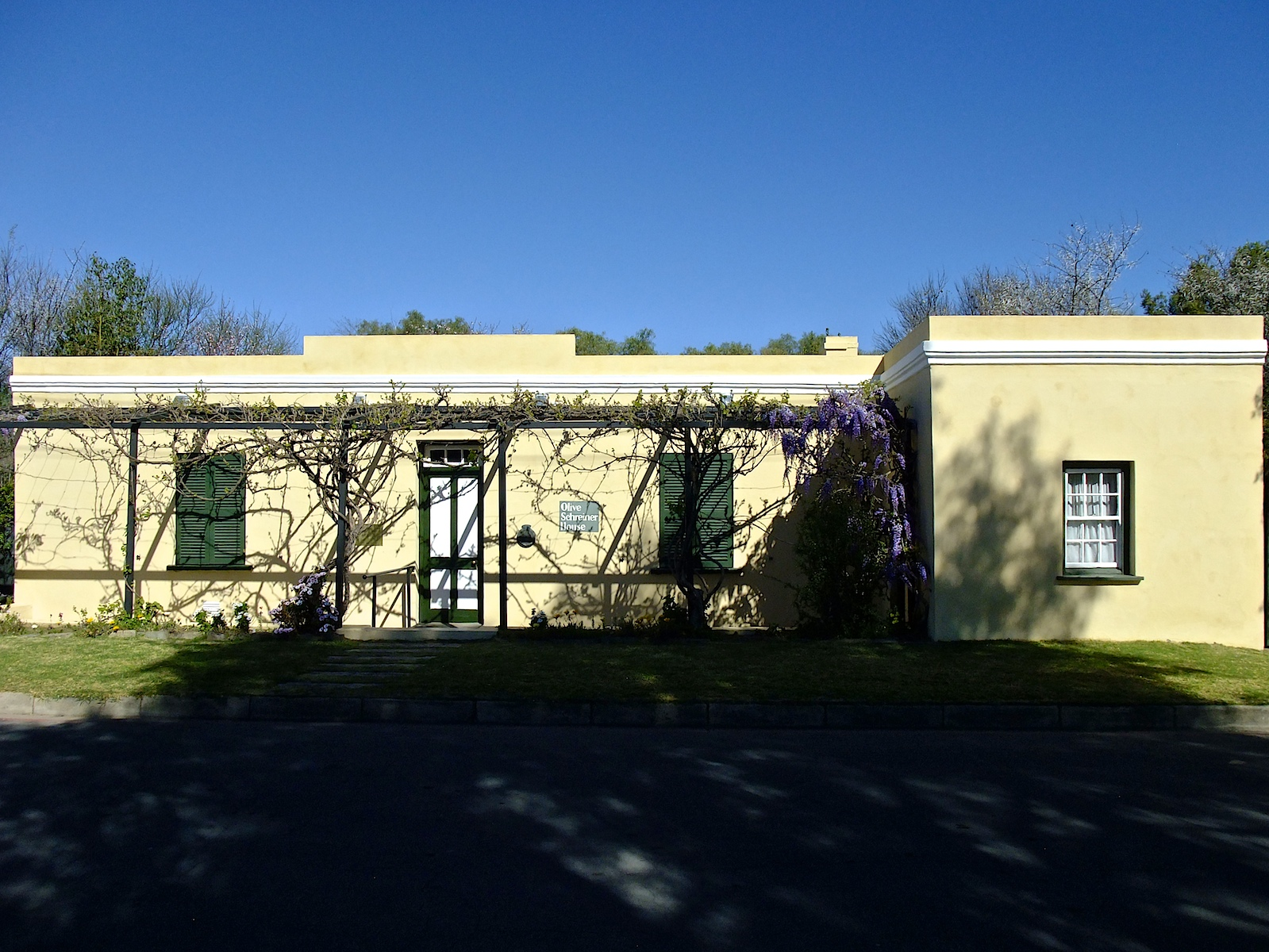 Olive Schreiner House, 9 Cross Street, Cradock This media shows a South African Protected Site with SAHRA file reference 9/2/024/0015.